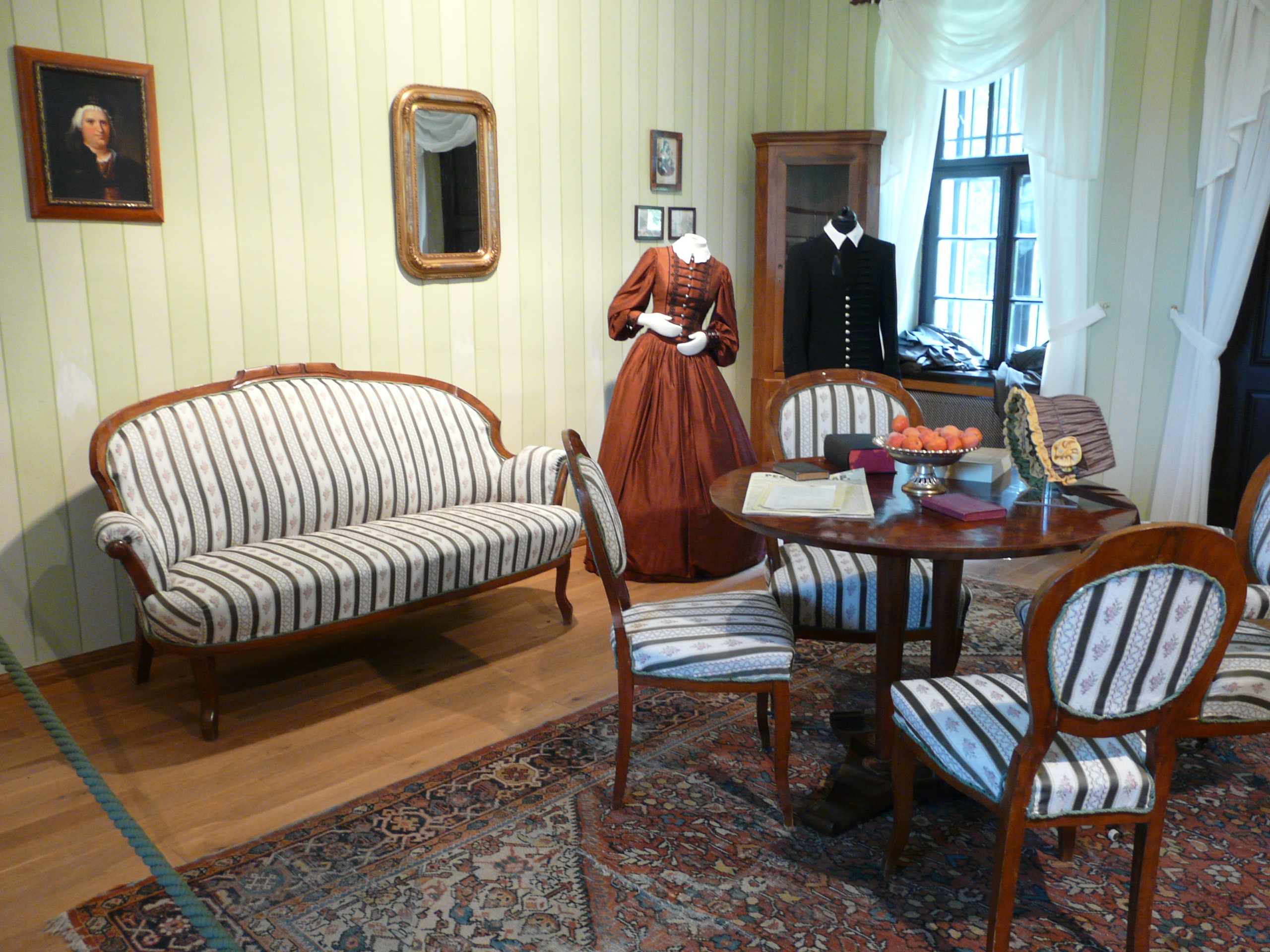 Room interior of Imre Madách Memorial Museum in Csesztve